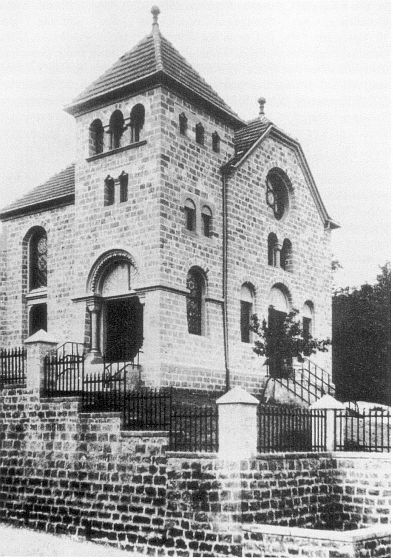 Synagogue of Winnweiler (Germany) built in 1901. The synagogue was destroyed by the nazis during Kristal Nacht in 1938.